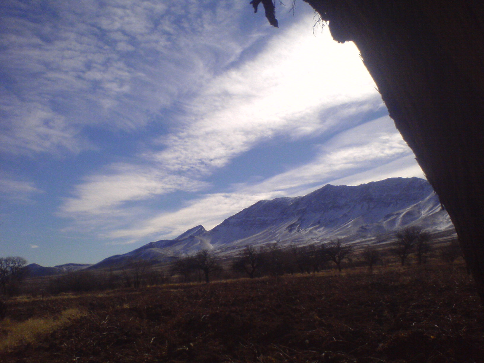 faraj abad فرج آباد روستایی زیبا در استان مرکزی شهرستان خمین